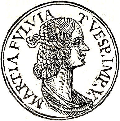 Marcia Furnilla was a Roman woman that lived in the 1st century. Furnilla was the second and last wife of the future Roman Emperor Titus.